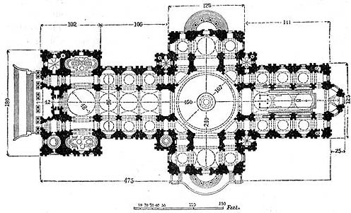 A plan of St Paul's Cathedral in London from Picturesque England by Laura Valentine (1891). The measurements are in feet. 475 feet is approximately 145 metres.